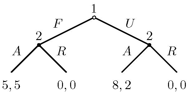 An extensive form representation of a two proposal ultimatum game.